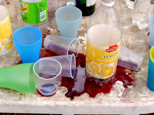 After the party. Photo: D.M. Vernon Date: 2006